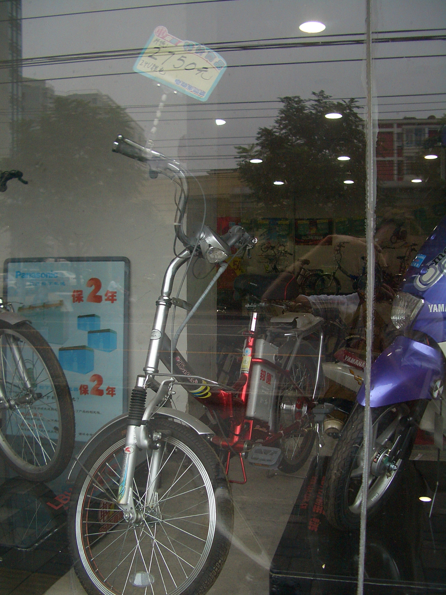 Looking into the window of an electric bicycle shop in Beijing (somewhere south of downtown, between the Niu Jie Mosque and Tian Tan). This particular electric bike carries the price tag of 2750 yuan (around US$400).